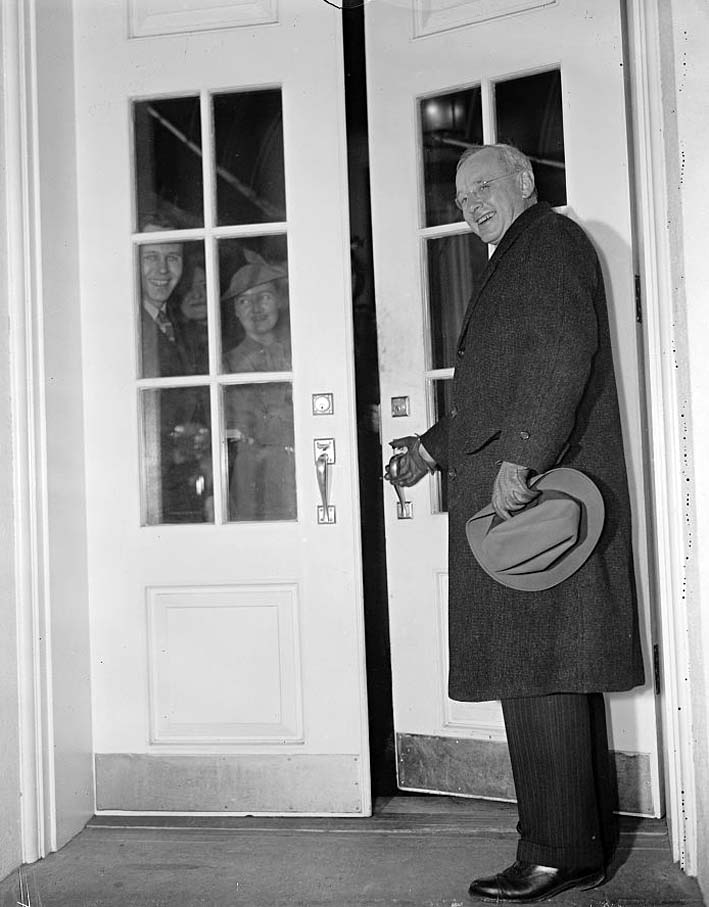 Alf Landon, Governor of Kansas, visiting the White House after his defeat in the 1936 presidential election against Franklin D. Roosevelt